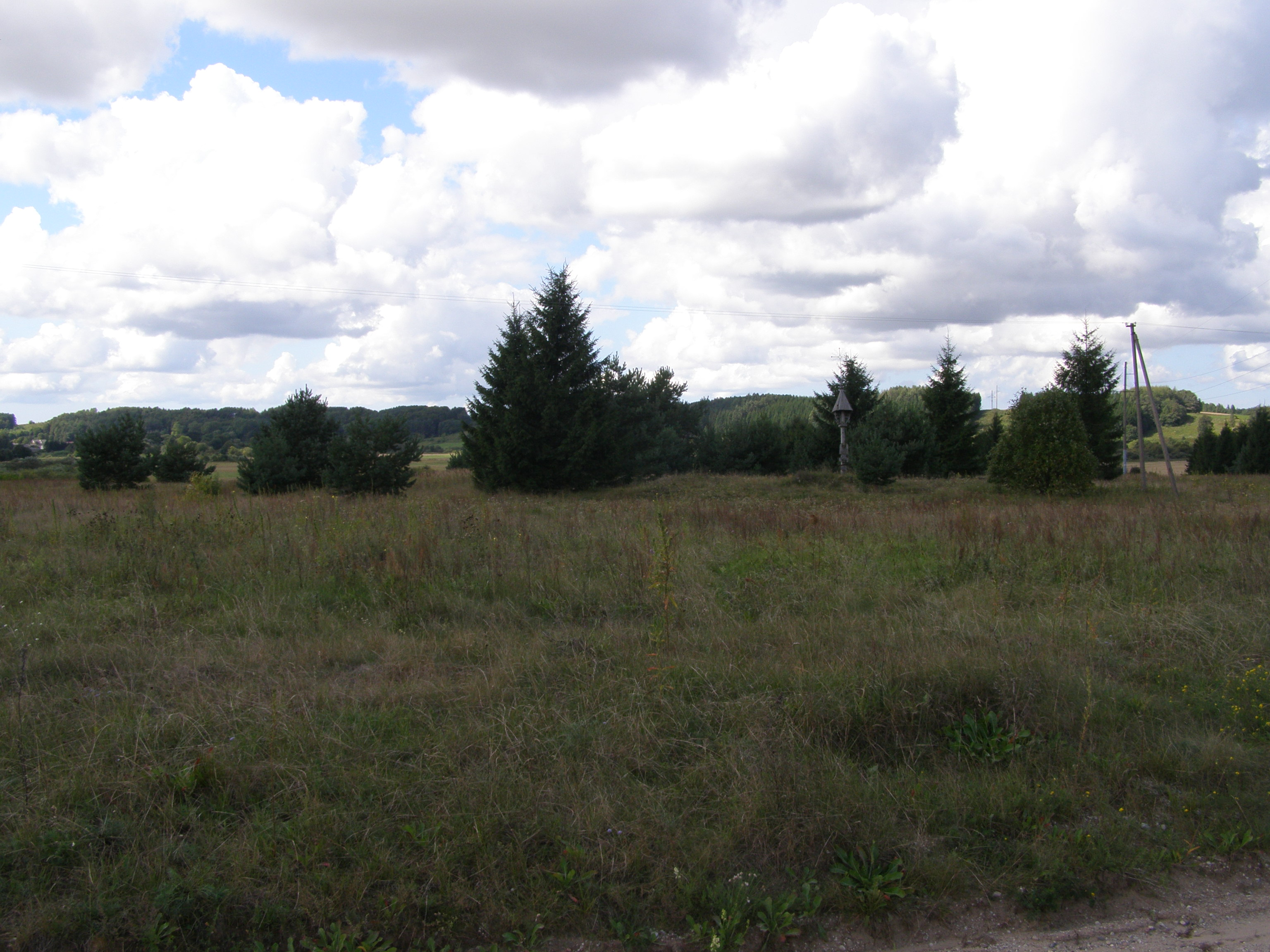 Gintarai cemetery, Kretinga district, Lithuania